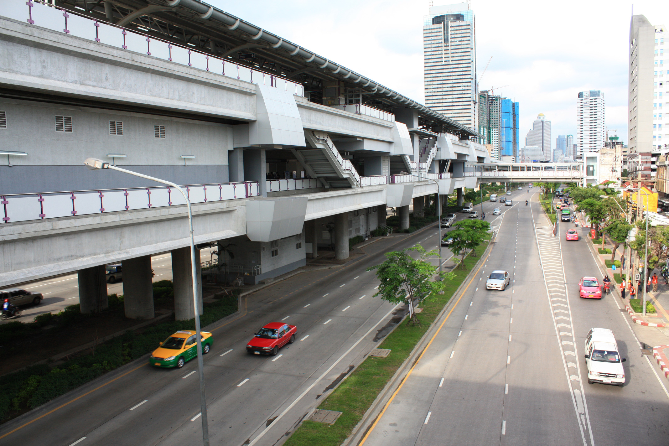 BTS Wongwian Yai Station, Bangkok, Thailand.